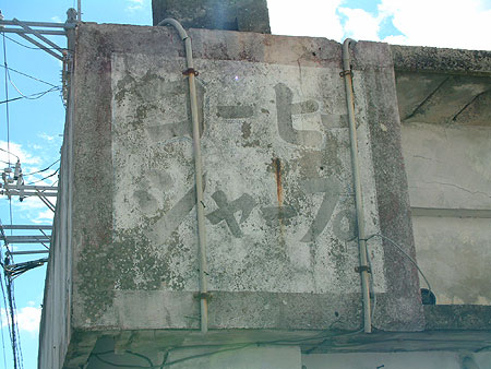 Koohii-Shaapu is a Okinawan Japanese word meaning "Coffee Shop". The same word is pronounced "Koohii-Shoppu" in Standard Japanese.